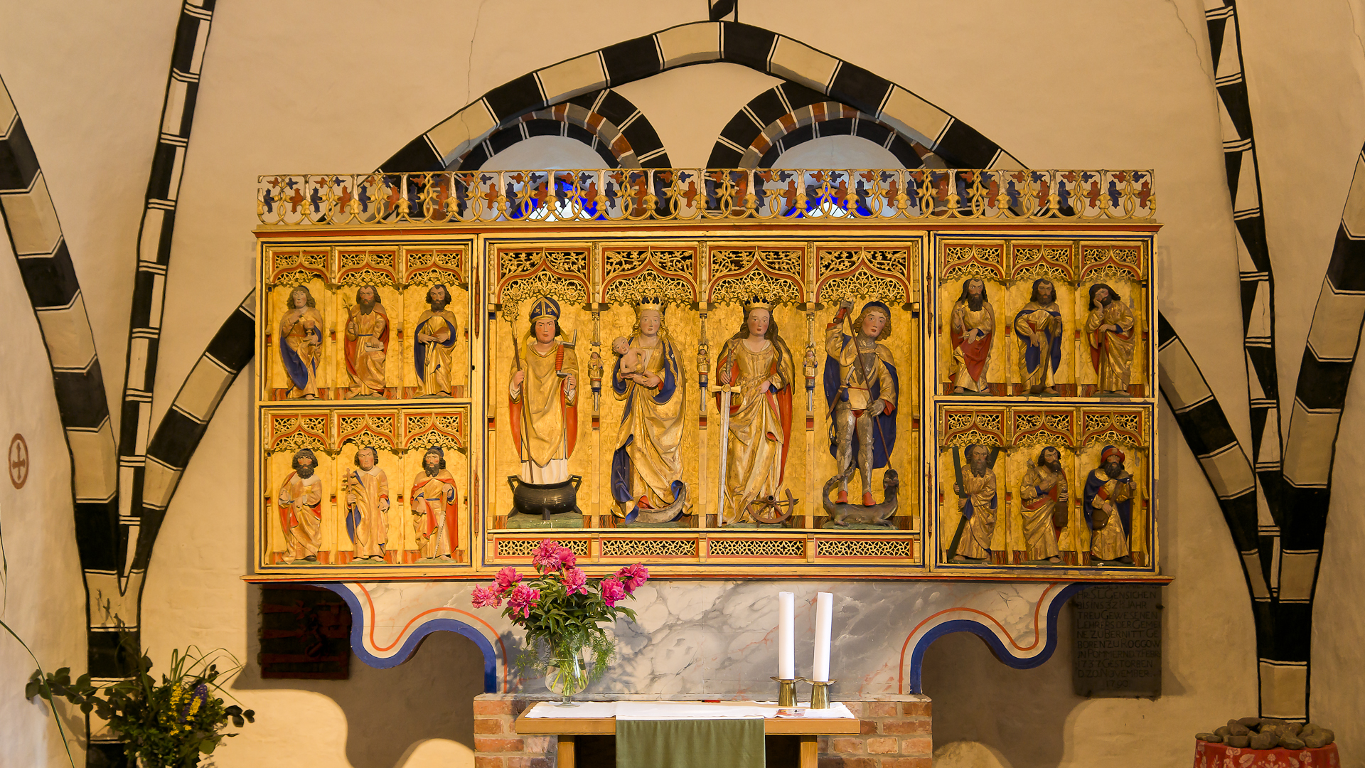 Church in Bernitt (altar), disctrict Güstrow, Mecklenburg-Vorpommern, Germany